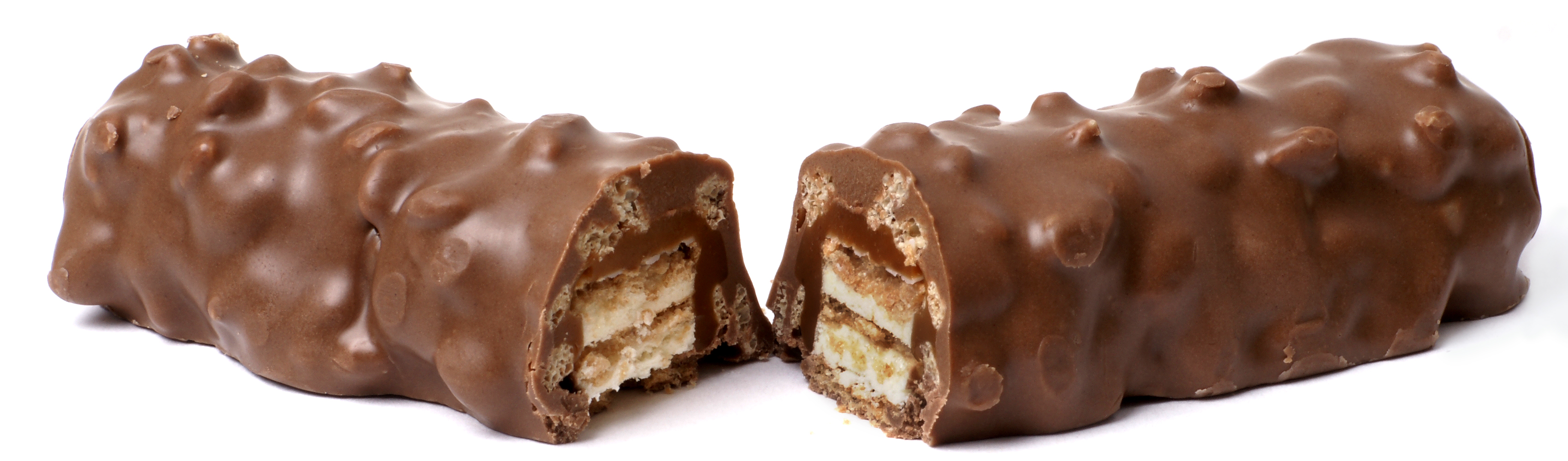 A Nestle Lion chocolate bar, available in the UK.